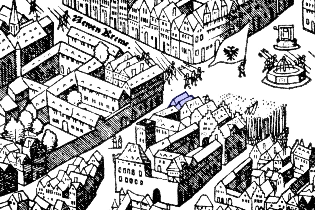 Detail from the siege plan of Frankfurt am Main from 1552, Römerberg and surroundings; caption: Coloured = presumed antecessor buildings of the Salt House erected in 1595 or shortly after A = House Frauenstein B = House Loewenstein C = House Roemer D = House Alt-Limpurg E = House Wanebach F = House Frauenrode G = Archive tower of House Frauenrode H = House Viole I = House Schwarzenfels J = Franciscan friary and church K = Antecessor of the fountain of justice L = Antecessor of the fountain of Minerva